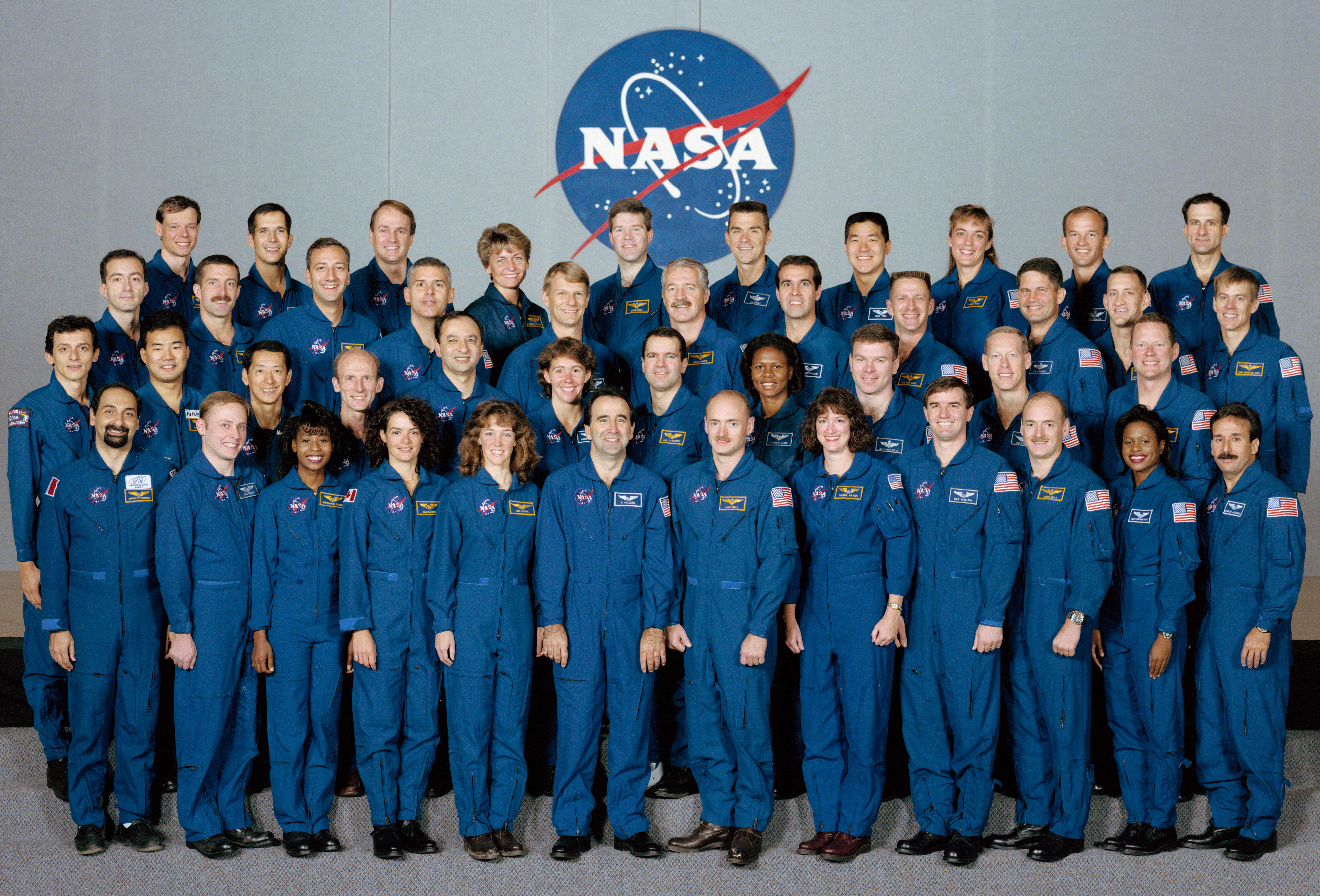 S96-18546 (5 Nov. 1996) --- Following their selection from among 2,400 applicants, the 44 astronaut candidates begin a lengthy period of training and evaluation at NASA's Johnson Space Center as they gather for their group portrait. This year's class is the largest in the history of space shuttle astronauts and their early program predecessors. Ten pilots and 25 mission specialists make up the internationally diverse class. The international trainees represent the Canadian, Japanese, Italian, French, German and European space agencies. Back row -- from the left, Christer Fuglesang, John Herrington, Steve MacLean, Peggy Whitson, Stephen Frick, Duane Carey, Daniel Tani, Heidemarie Stefanyshyn-Piper, Jeffrey Williams and Donald Pettit. Second to back row -- from the left, Philippe Perrin, Daniel Burbank, Michael Massimino, Lee Morin, Piers Sellers, John Phillips, Richard Mastraccio, Christopher Loria, Paul Lockhart, Charles Hobaugh and William McCool. Second to front row -- from the left, Pedro Duque, Soichi Noguchi, Mamoru Mohri, Gerhard Thiele, Mark Polansky, Sandra Magnus, Paul Richards, Yvonne Cagle, James Kelly, Patrick Forrester and David Brown. Front row -- from the left, Umberto Guidoni, Edward Fincke, Stephanie Wilson, Julie Payette, Lisa Nowak, Fernando Caldeiro, Mark Kelly, Laurel Clark, Rex Walheim, Scott Kelly, Joan Higginbotham and Charles Camarda. Guidoni represents the Italian Space Agency (ASI). Fuglesang and Duque represent the European Space Agency (ESA). Mohri and Noguchi represent the Japanese Space Agency (NASDA). MacLean and Payette are with the Canadian Space Agency. Perrin is associated with the French Space Agency (CNES) and Thiele represents the German Space Agency (DARA).